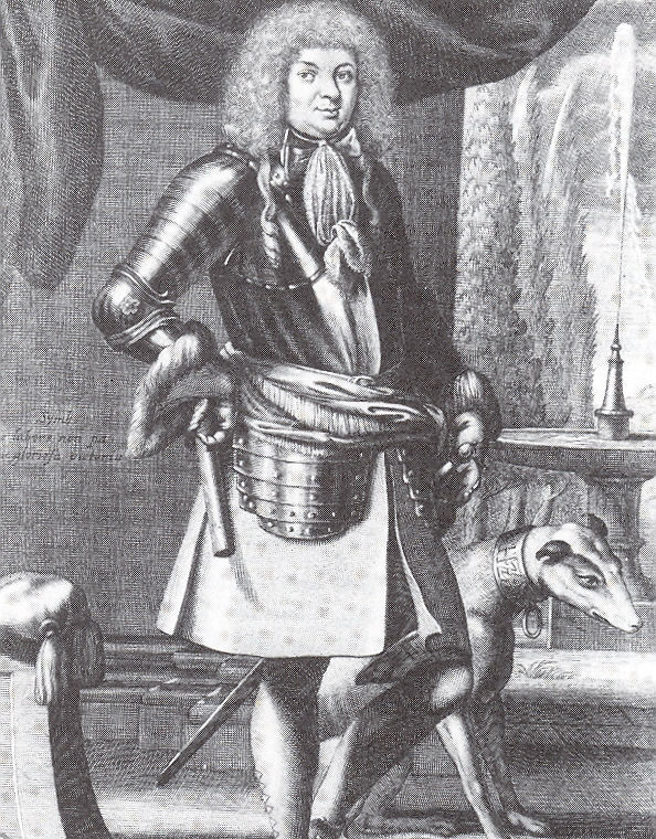 Albert V, Duke of Saxe-Coburg